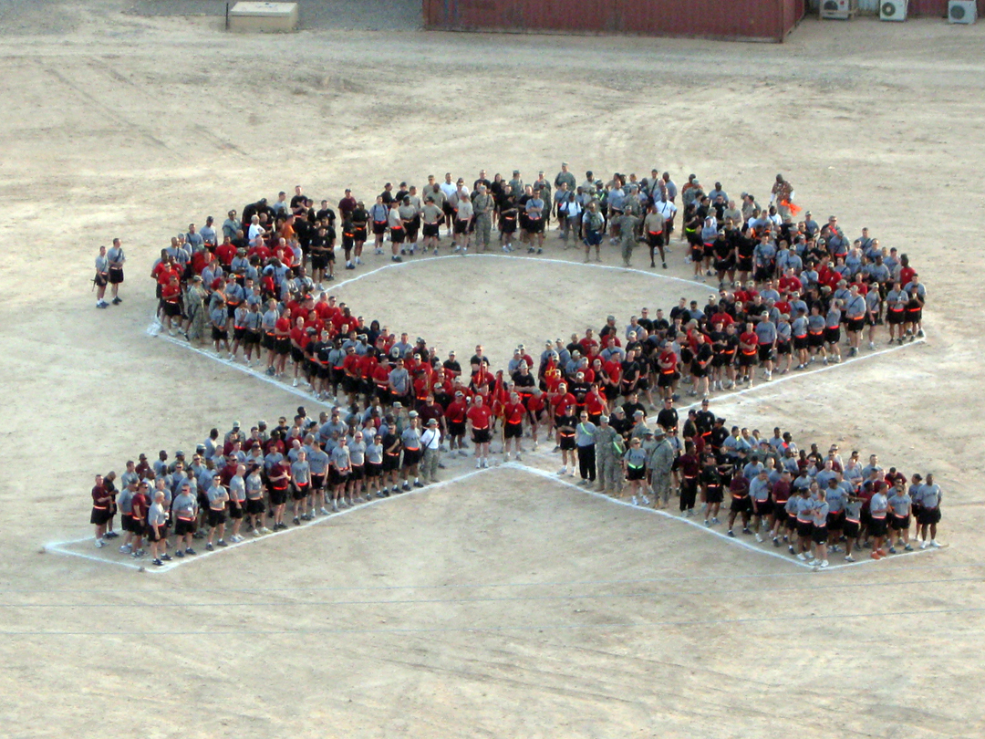 Soldiers of the 3rd Infantry Brigade Combat Team, 25th Infantry Division gathered to form the emblem of a ribbon symbolizing the Take Back the Night rallies, led by women that started in Belgium during times in 1976 where crimes against women were high during the Bde's event designed to bring awareness and promote a stand against sexual assault by "breaking the silence", April 11.